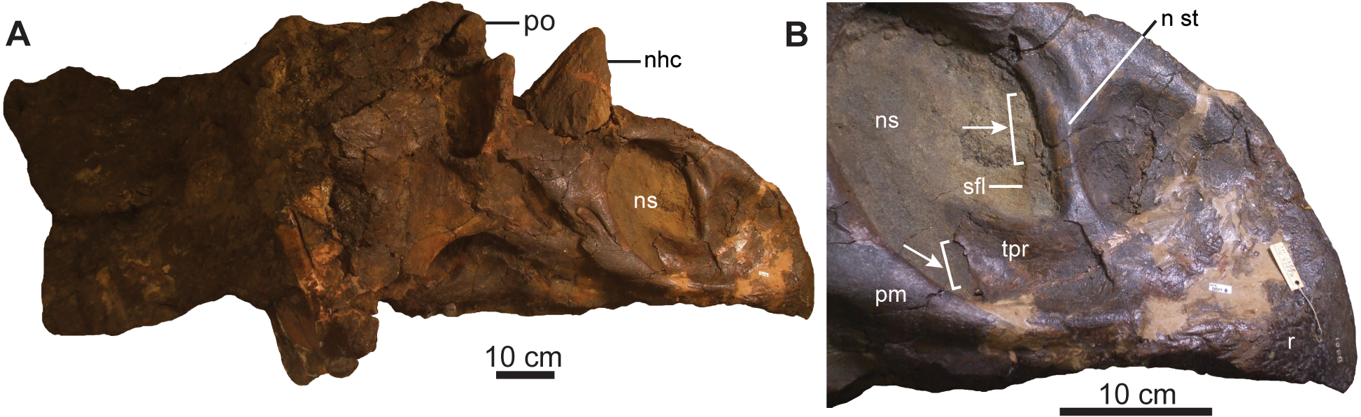 Skull of CMN 8801 (Chasmosaurus sp.). Skull in (A) right lateral view. Snout in (B) right lateral view; brackets and arrows delimit extent of breakage along the triangular process and septal flange of the premaxillae.